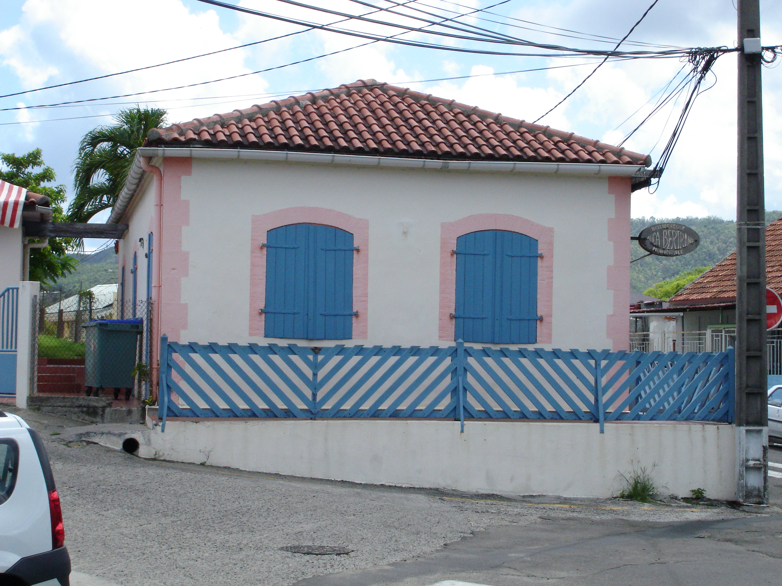 Municipal library of Marin (Martinique).